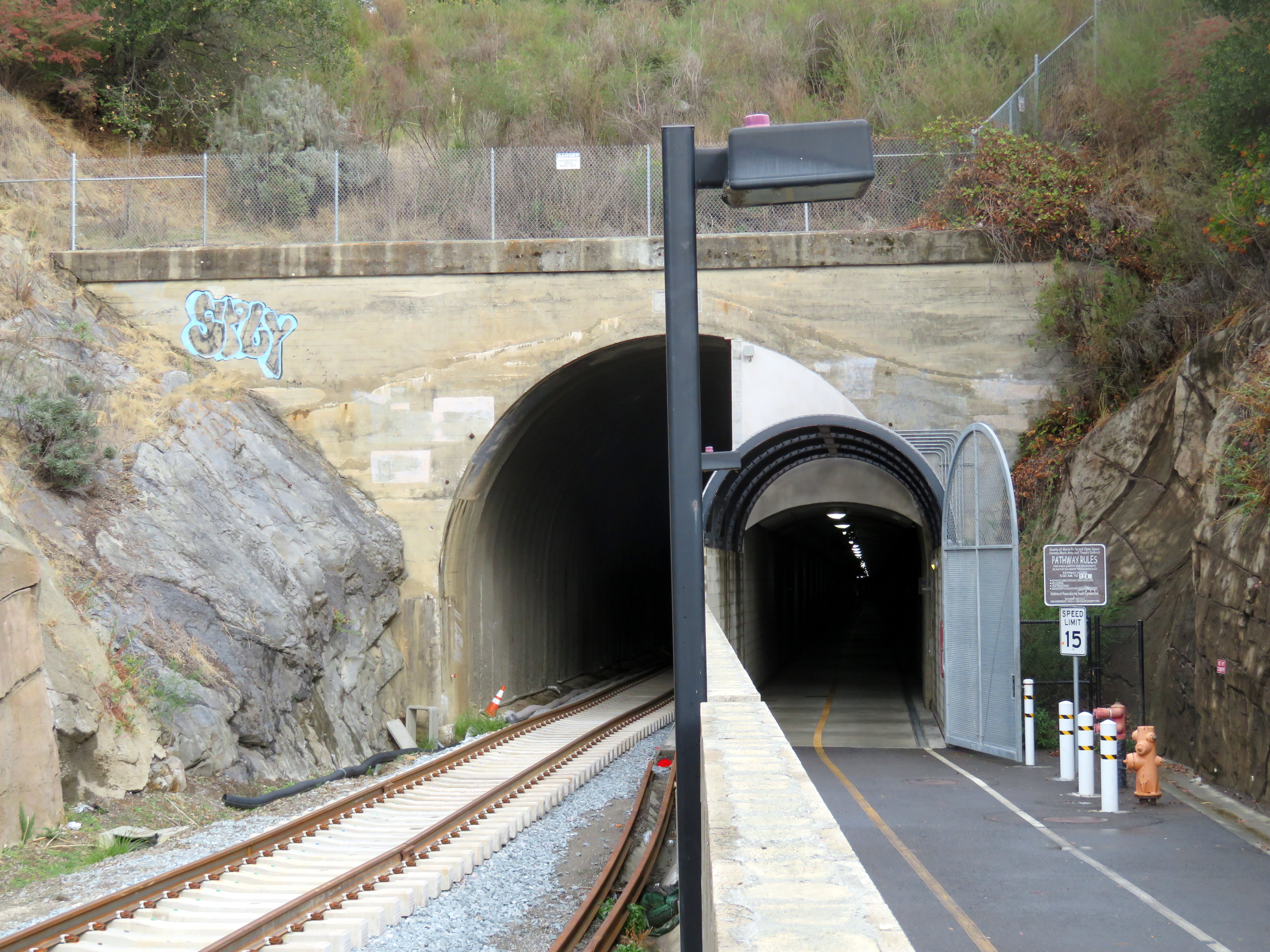 South portal of the Cal Park Hill Tunnel in November 2018, with SMART track construction at left